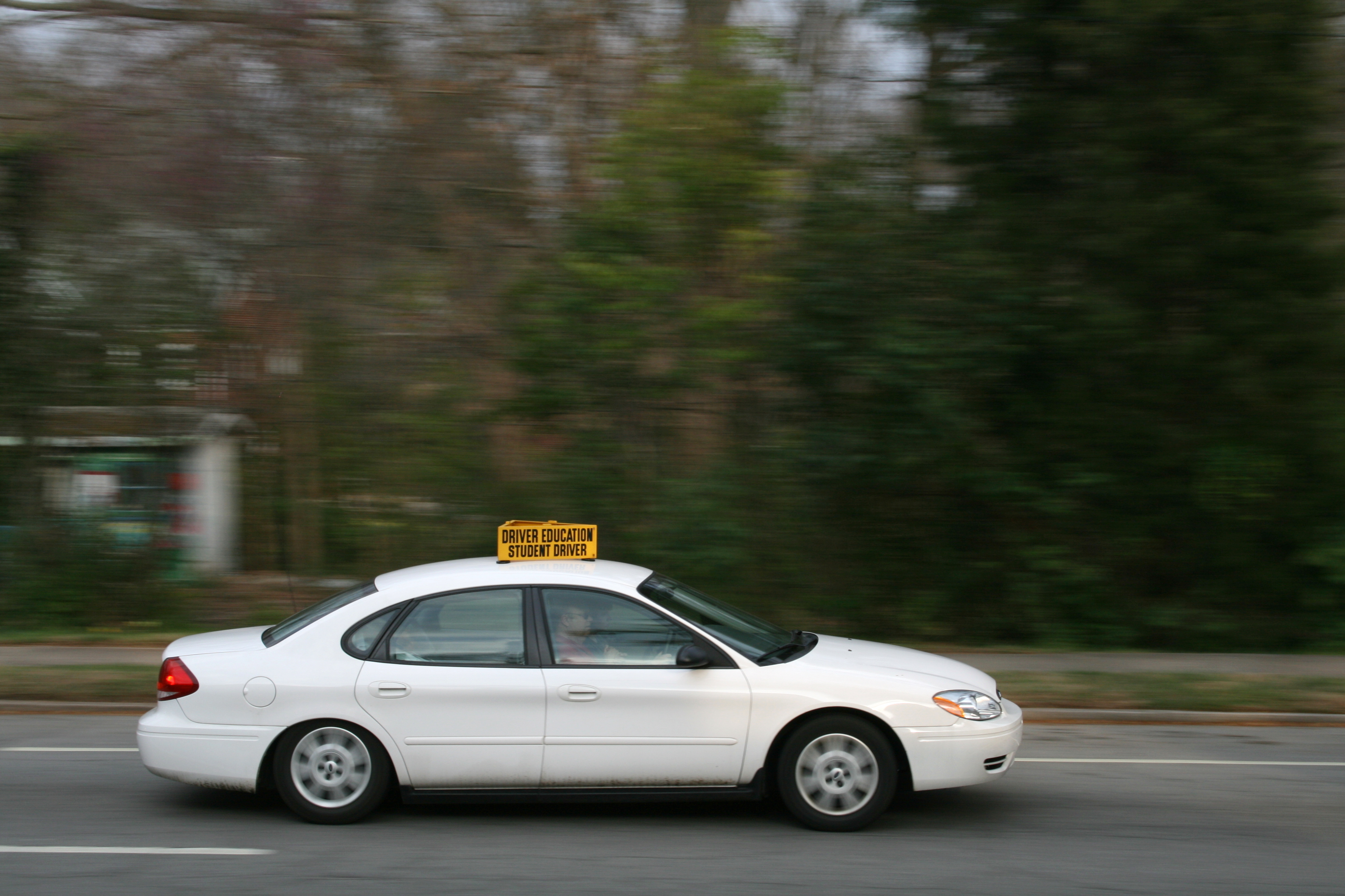 A student driver travelling southbound in a white Ford Taurus instructional vehicle on North Gregson Street in Durham, North Carolina.